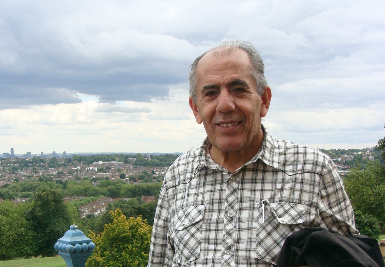 Jalal Dabagh, here at Alexandra Palace, Muswell Hill in London.